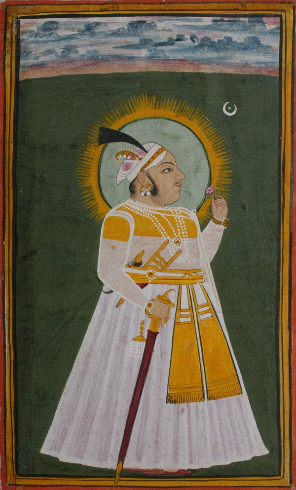 Posthumous portrait of Maharana Raj Singh of Mewar (r.1754-61). Bikaner, circa mid-19th century.